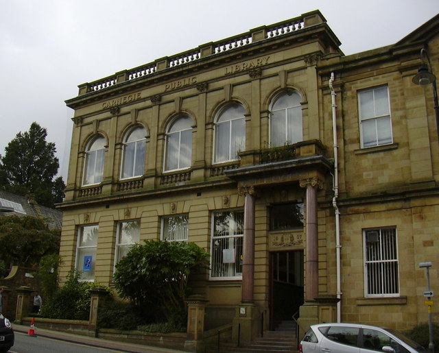 Library